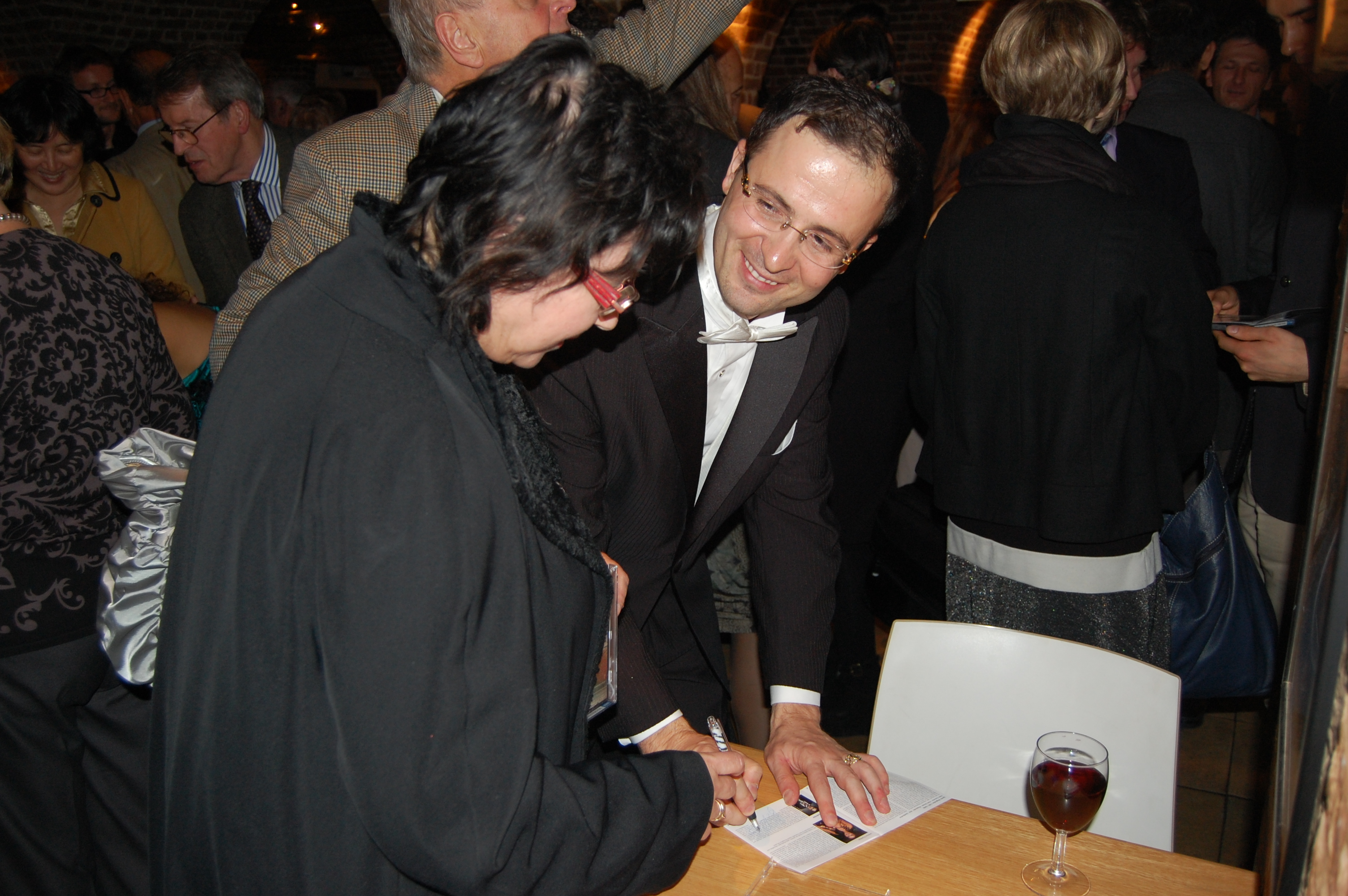 Giorgi Latsabidze signing CDs after the given recital at St. John's Smith Square Concert Hall in London